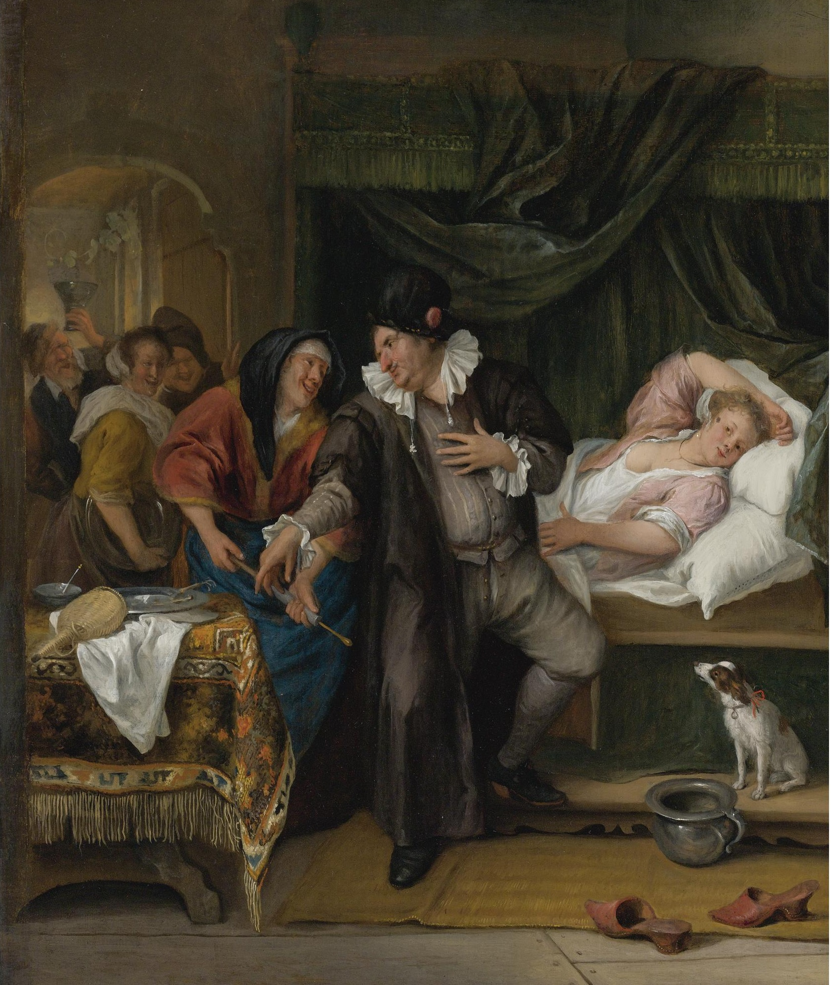 This image is available from the Netherlands Institute for Art Historyunder digital ID 213935. This tag does not indicate the copyright status of the attached work. A normal copyright tag is still required. See Commons:Licensing.